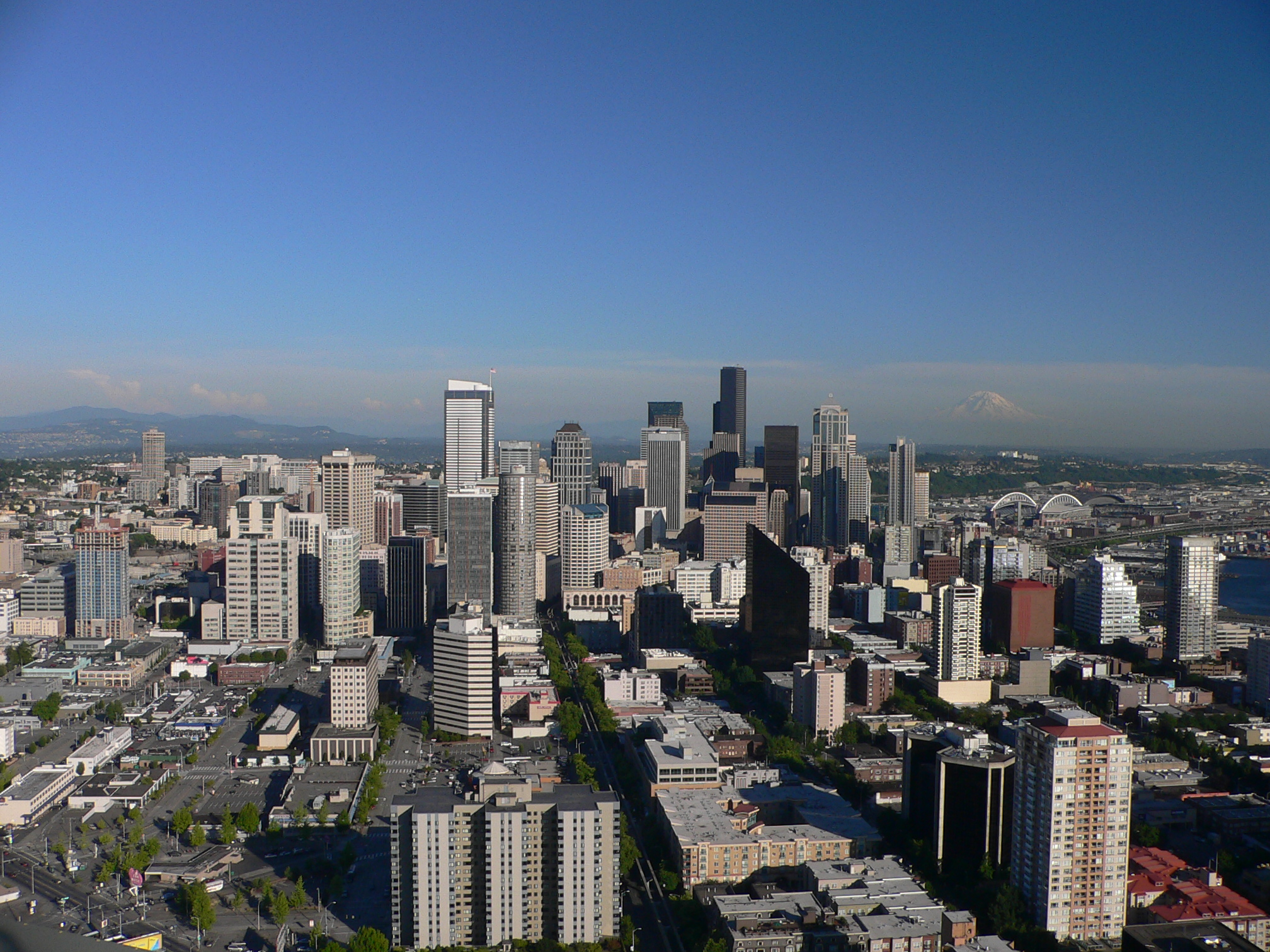 Exploring Seattle for a day: Downtown from Space Needle. Mount Rainier in background at right.